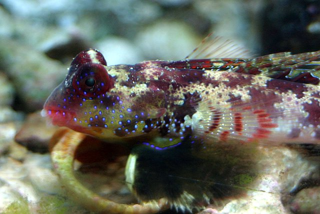 Scooter blenny, female